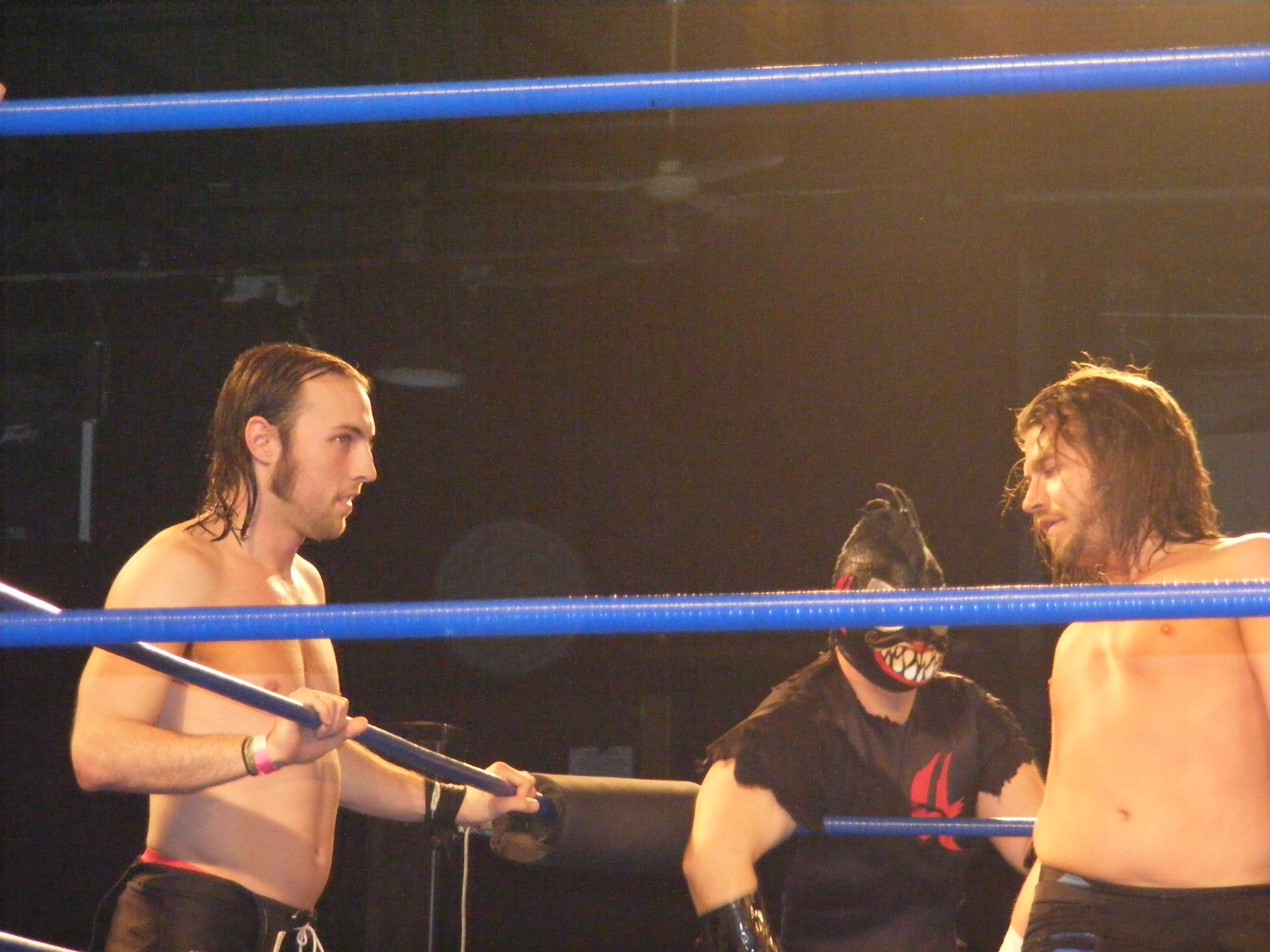 The UnStable (colin Delaney, left, STIGMA, centre, and Vin Gerard, right) at Chikara's King of Trios Night 1 show in Philadelphia on April 23, 2010.